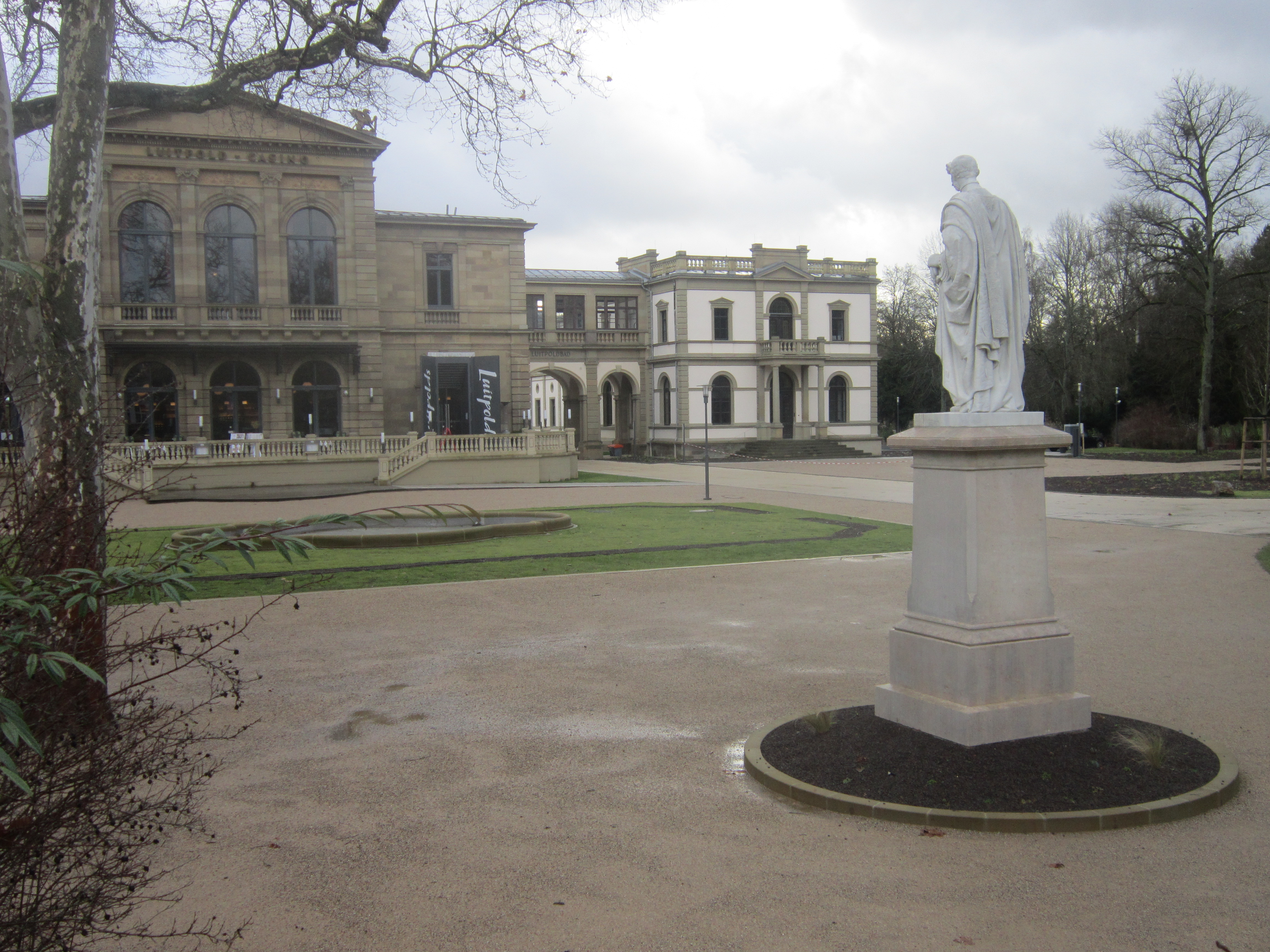 Memorial for Bavarian King Maximilian II Joseph in the "Luitpoldpark" in the German spa town of Bad Kissingen in Lower Franconia (Bavaria).